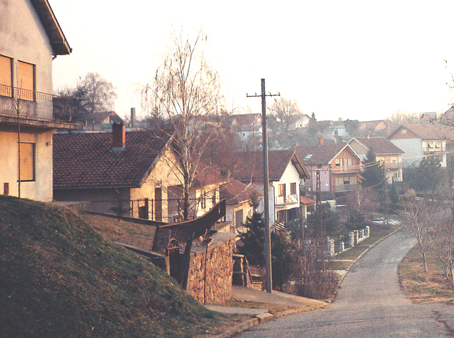 Image of Ledinci village near Novi Sad (self made) Category:Novi Sad images